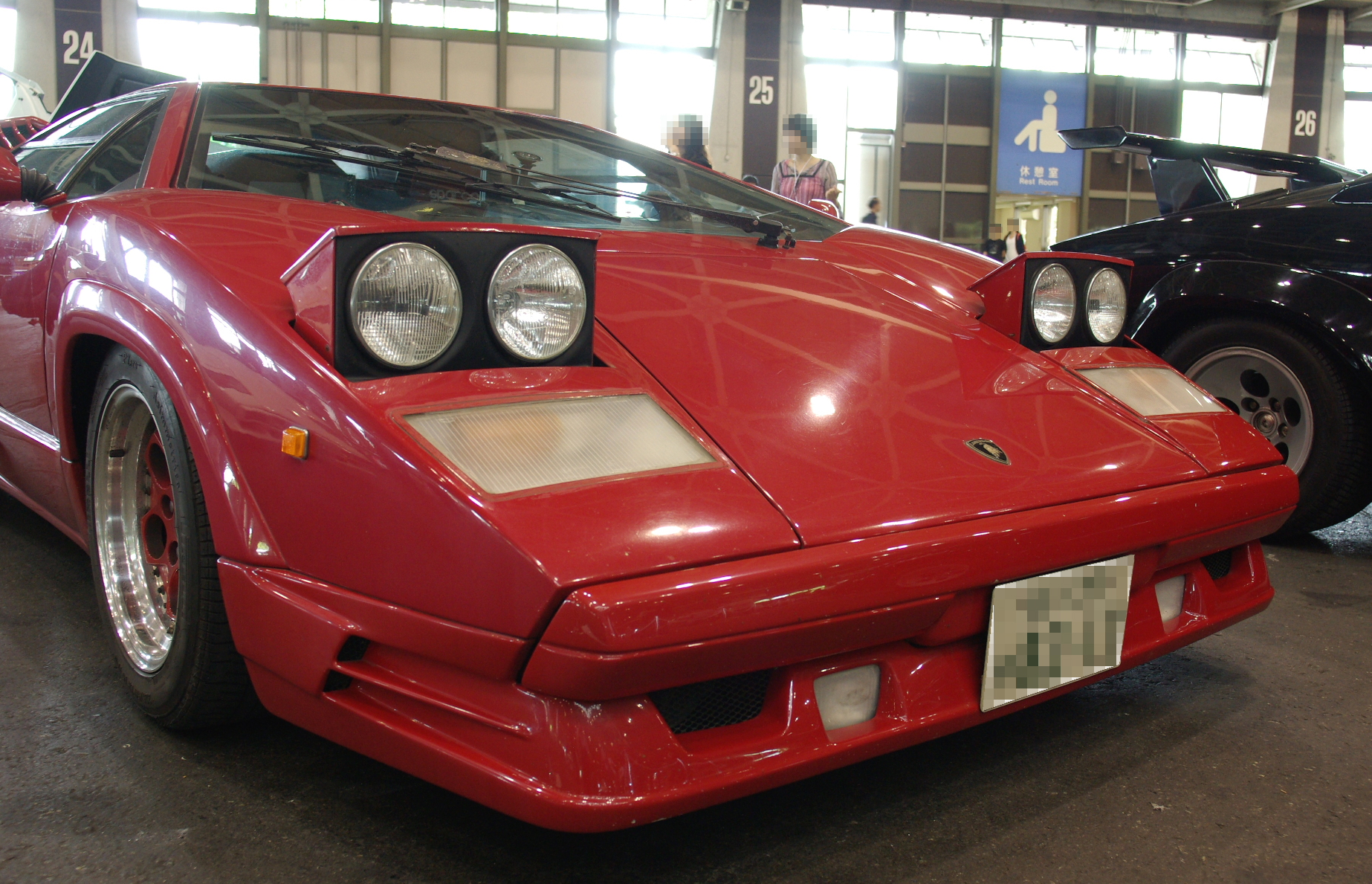 Countach which raised retractable headlights.